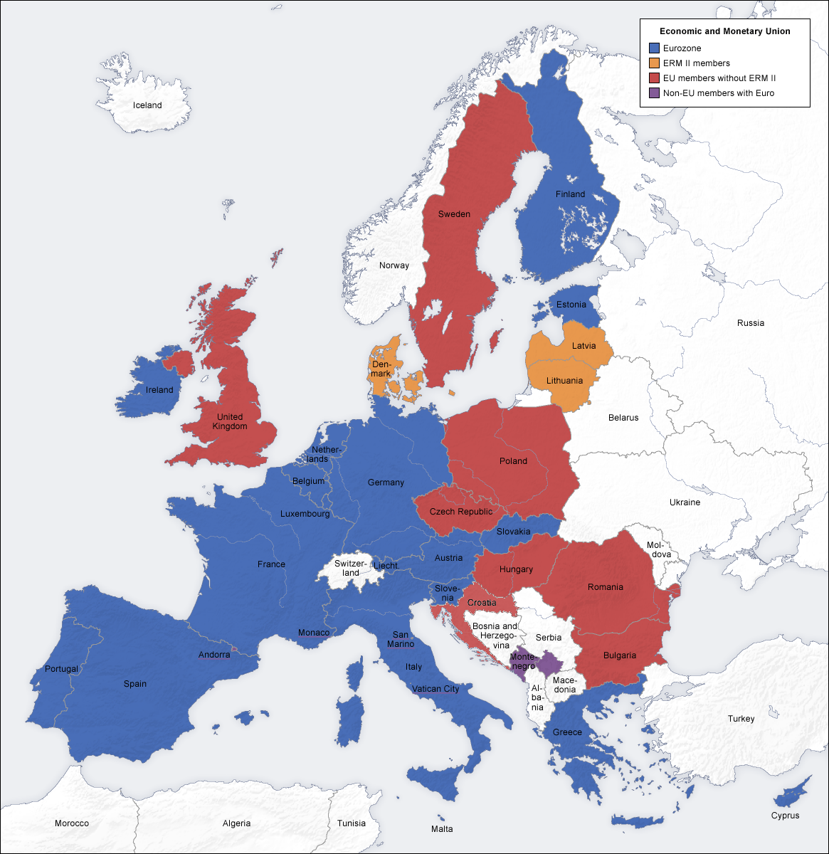 Economic and Monetary Union, map en